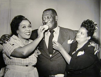 Publicity photo - Lillian Randolph, Ernest Whitman, and Ruby Dandridge on Beulah 1952 - 1953.